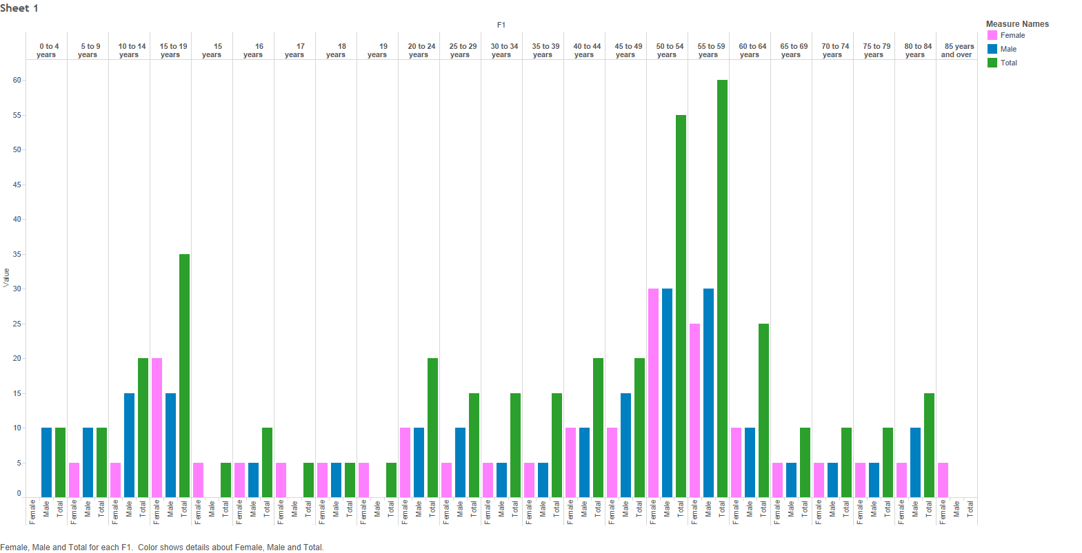 Age Statistics in Willow Bunch